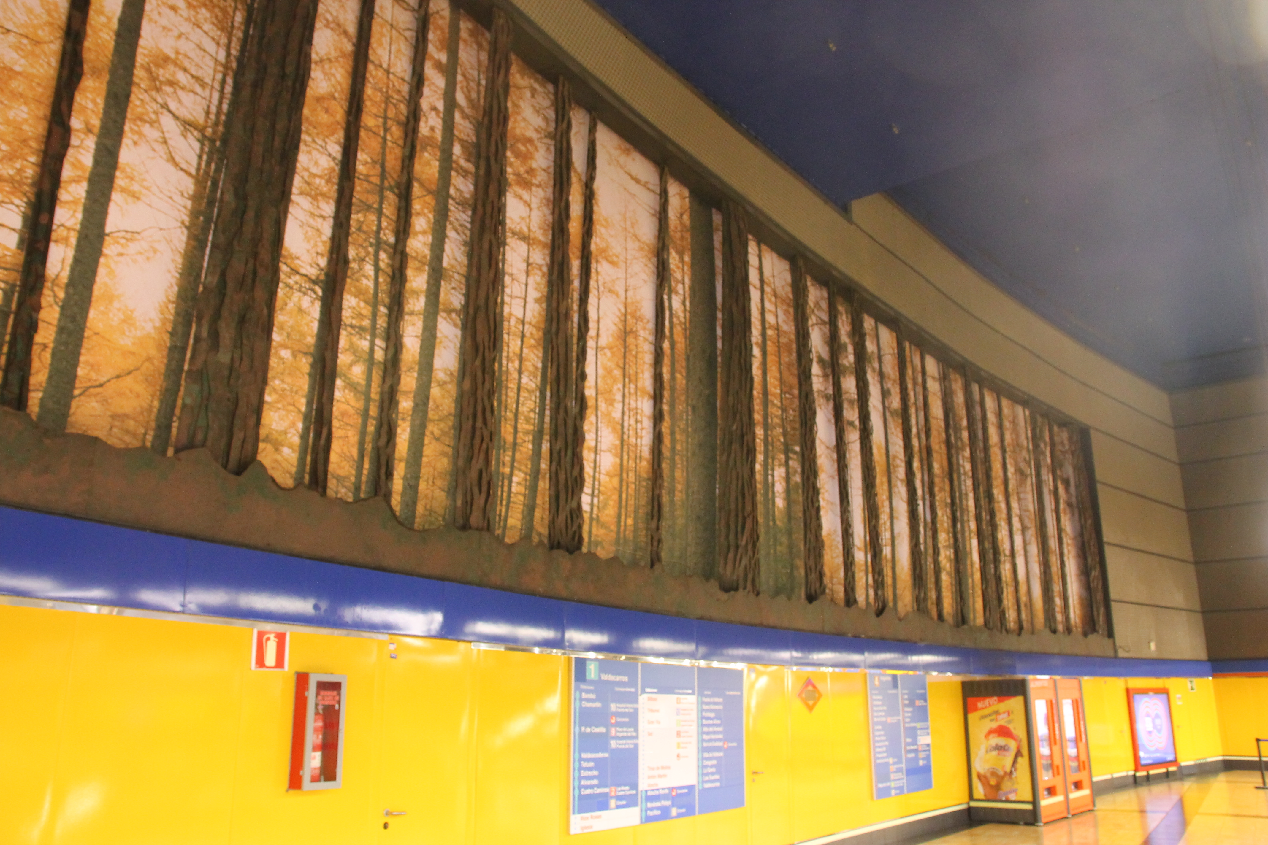 Sculpture of the pinewood at the Pinar de Chamartín metro station, Madrid